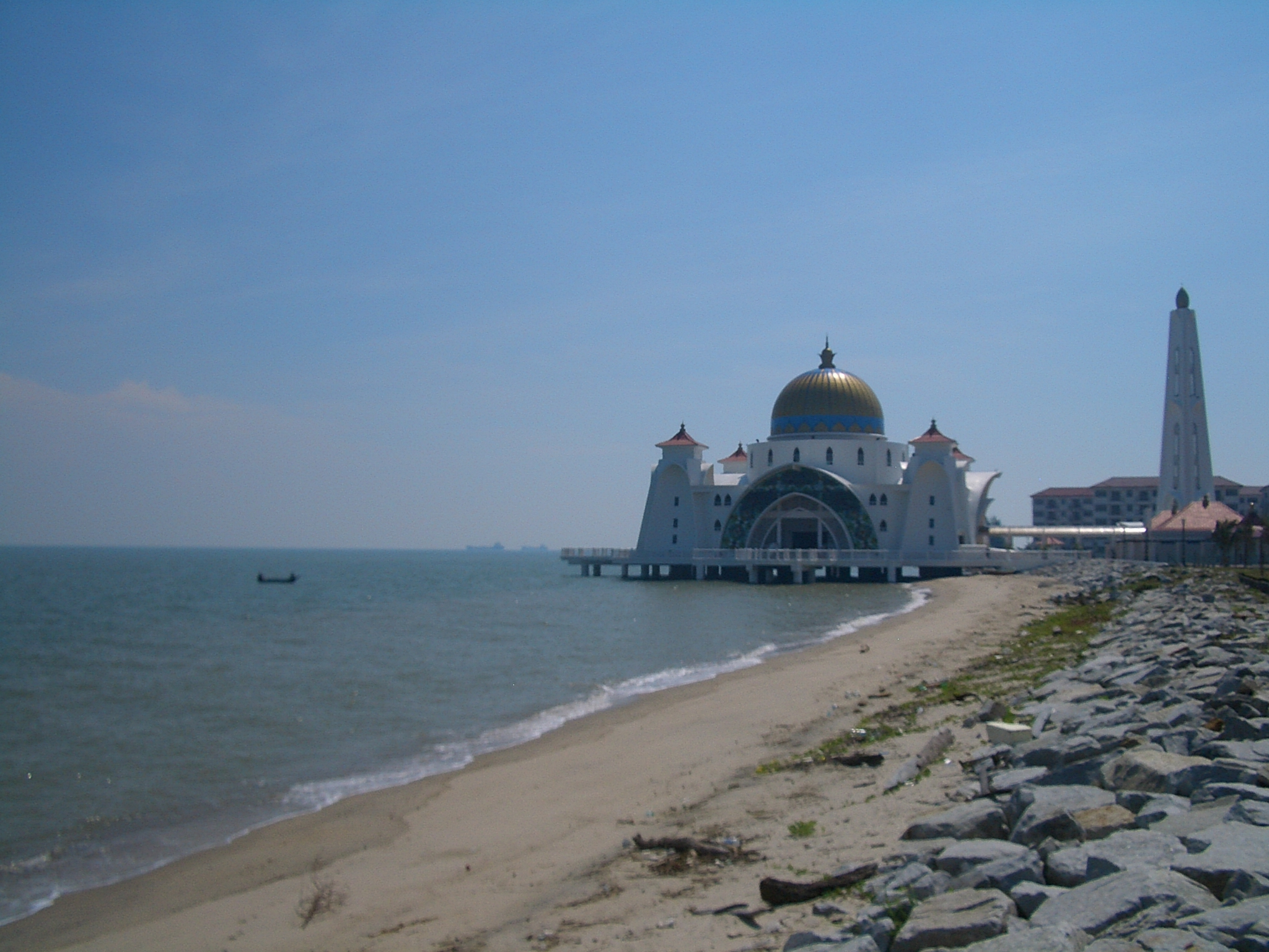 The Selat Melaka ("Malacca Strait") mosque, built on the beach on Palau Melaka. Ships on the Strait of Malacca seen in the background.